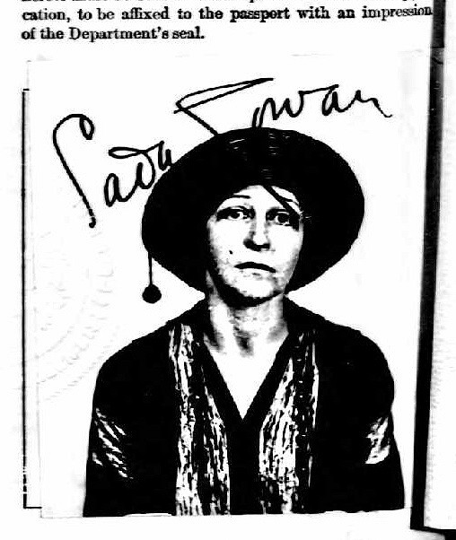 Sada Louise Cowan was born in Boston, Massachusetts, in 1883. Probably of Jewish heritage, Cowan moved to Europe as a teenager and studied music in Germany, we are told in a 1919 collection of one-act plays (Gardner 77). She then went on to make her name as a playwright in “The State Forbids,” “In the Morgue,” “Pomp,” “Playing the Game,” “The Moonlit Way,” “The Honor of America,” and “The Wonder of the Age.” Thus, it was with a formidable reputation as a playwright that Cowan wrote her first credited silent film, The Woman Under Cover in 1919, at the age of thirty-six. Soon after she completed her first work with DeMille in 1920, she entered into contract with director-producer Harry Garson for several films starring his wife Clara Kimball Young, a deal that the Los Angeles Times announced with the headline “Signs Sada Cowan” (III13). The year 1922 saw the release of Fool’s Paradise, directed by Cecil B. DeMille, on which Cowan is credited with Famous Players-Lasky studio writer Beulah Marie Dix. For her later career and personal life, see the profile at